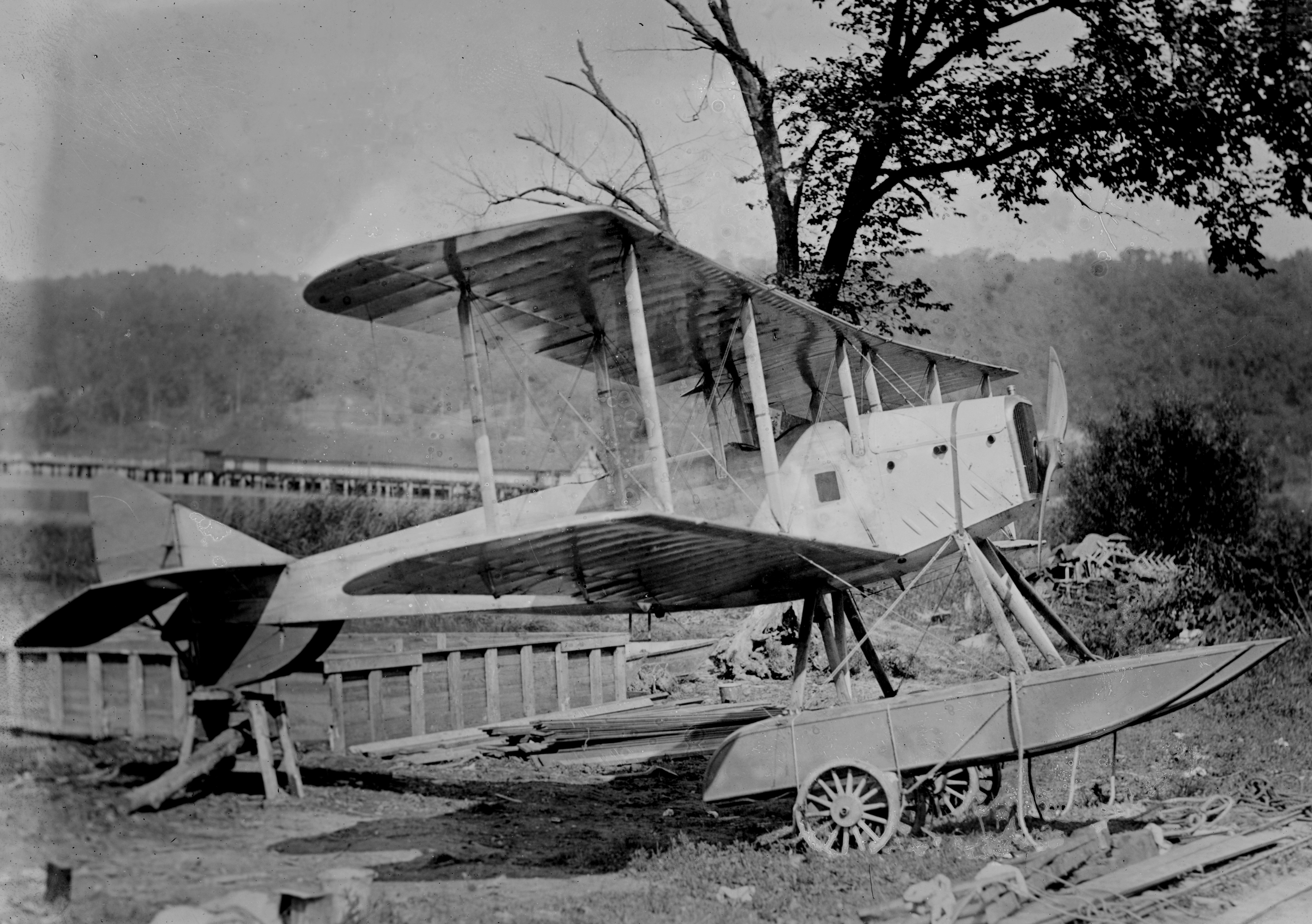 A Thomas Brothers Aeroplane Company HS airplane at the company's location at Ithaca, New York (USA), in 1916. The HS was a D-2 landplane on floats. Two were built in 1916 for the U.S. Navy, becoming the 20th and 21st U.S. Navy floatplanes (s/n 57A, 58A). Both were scrapped in 1917.